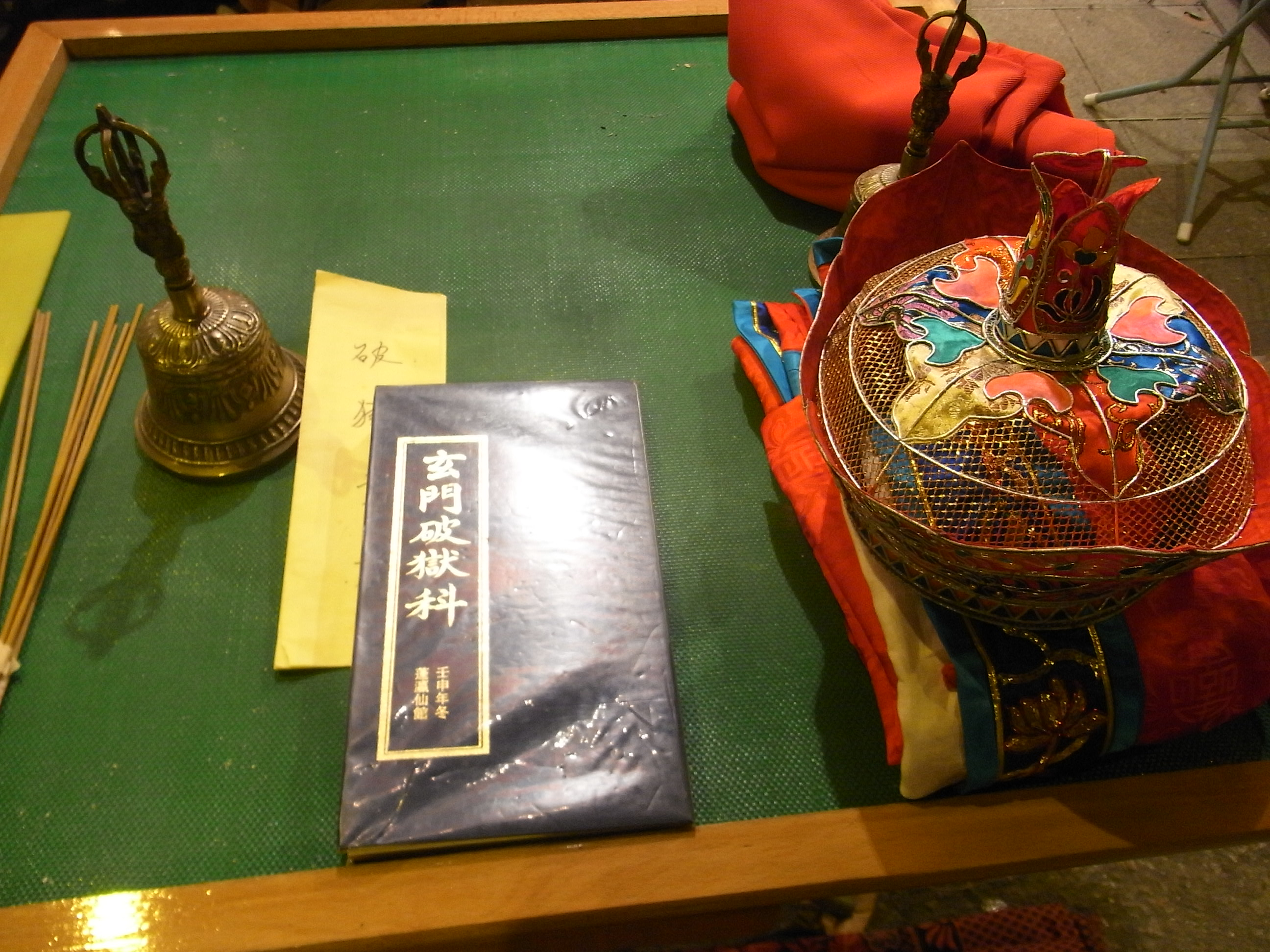 中元節與盂蘭盆節香港神工戲藝人表演, Yu Lan Festival, Sheung Wan, Hong Kong